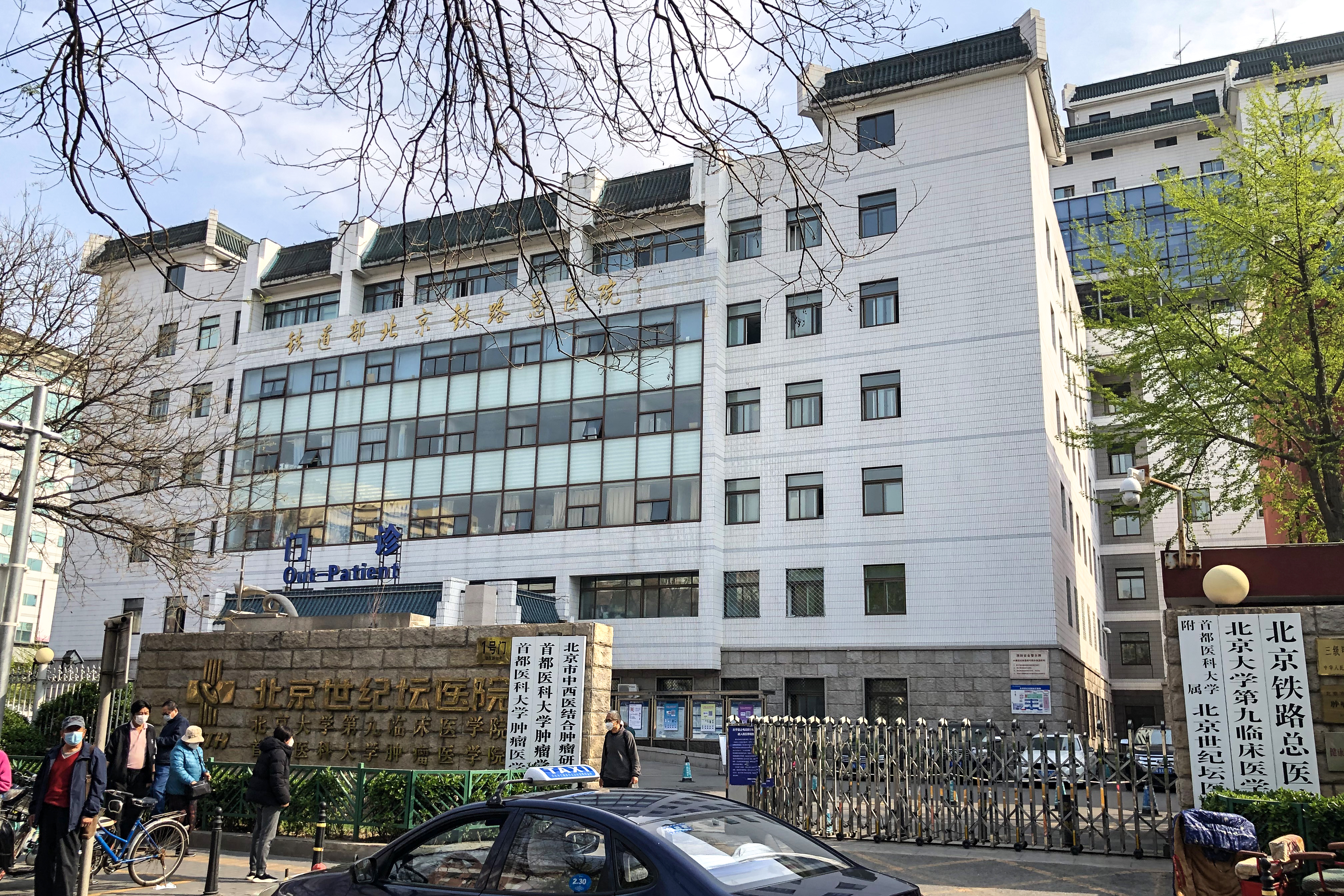 Formerly the railway hospital - with the titles written by Han Zhubin, the Minister of Railways in the mid-1990s.